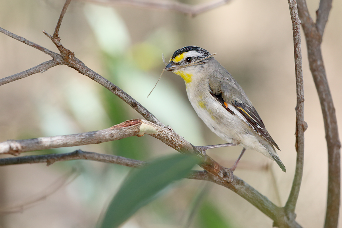 One of a pair building a nest under the railway bridge at Strangways